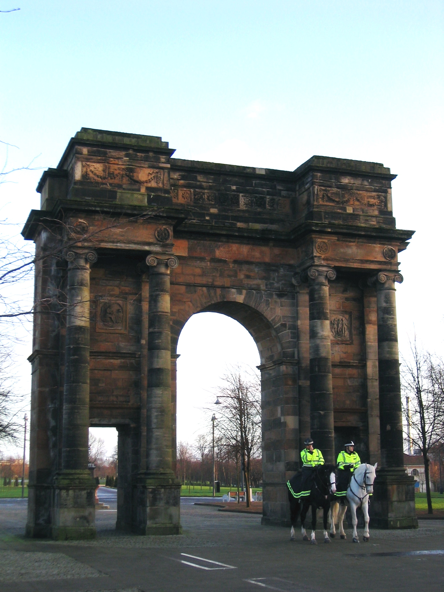 Police officers on horseback in front of McLennan Arch at sunset. Glasgow Green, Glasgow, Scotland.